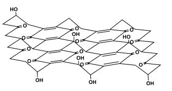 Scholz-Boehm formula